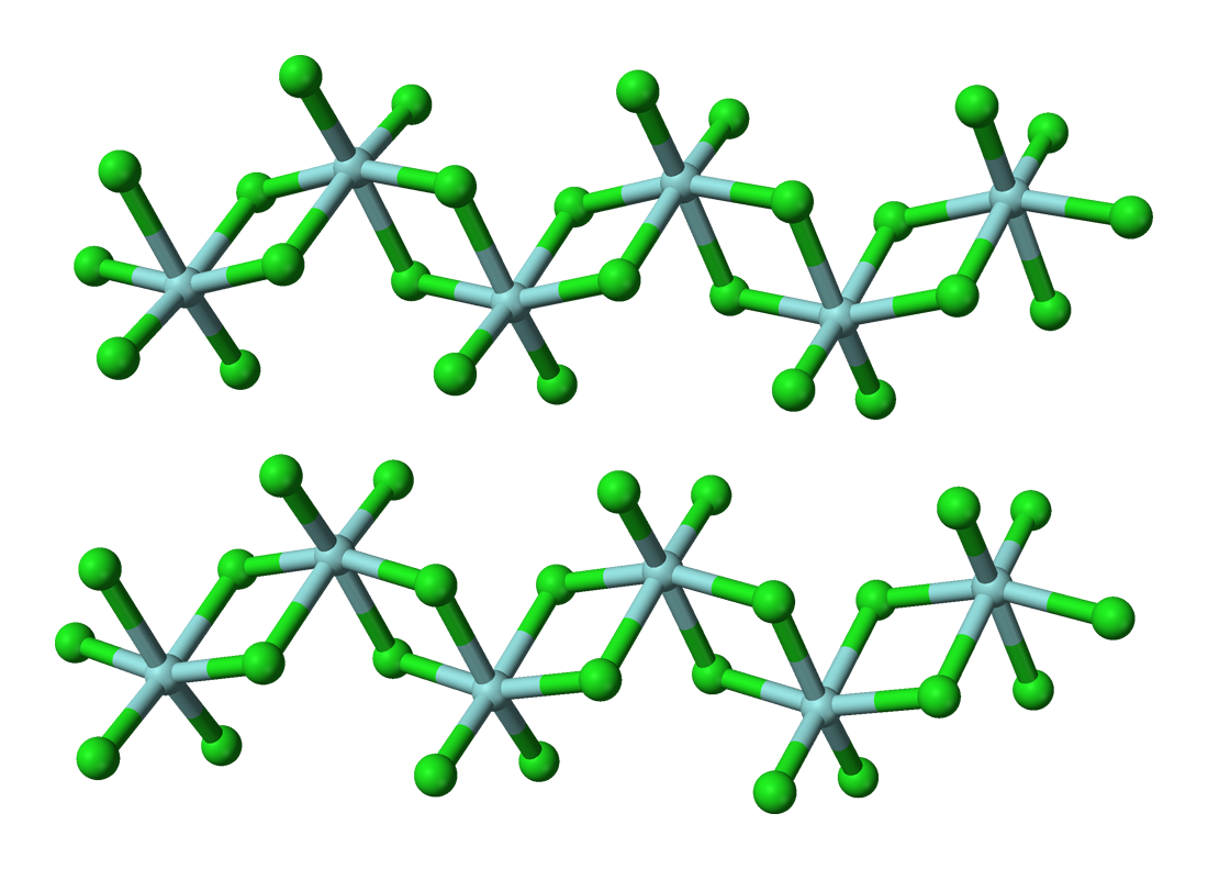 Ball-and-stick model of the part of the crystal structure of zirconium(IV) chloride, ZrCl4. Crystal structure data from 3DChem.